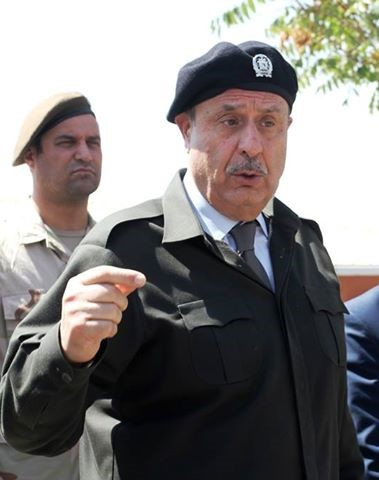 Minister of interior affairs of Afghanistan 2015